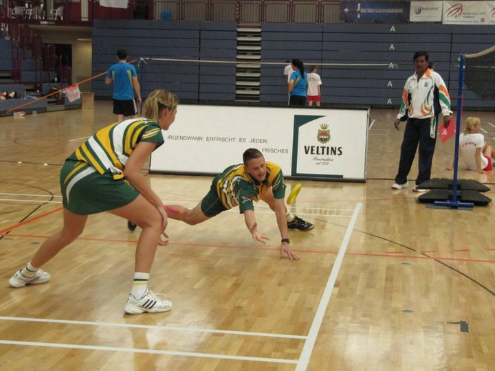 Ringtennis in action during the 2010 World Championships (mixed doubles).